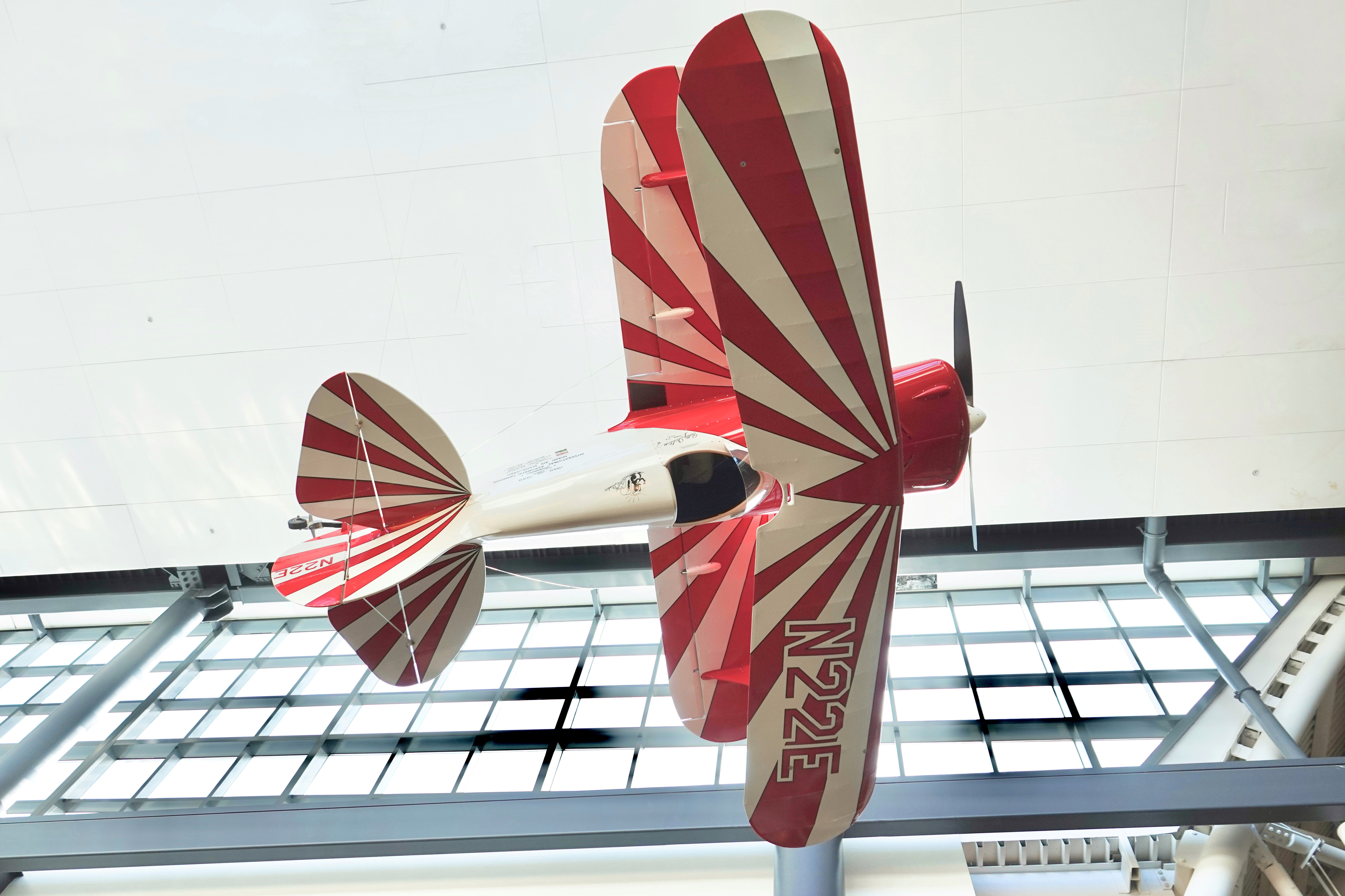 The Pitts Special (company designations S1 and S2) is a series of light aerobatic biplanes designed by Curtis Pitts. Betty Skelton bought this airplane in 1948, and with it she won the 1949 and ‘50 International Feminine Aerobatic Championships. Her impressive flying skill and public relations ability heightened awareness of both aerobatics and the Pitts design. Skelton sold Little Stinker in 1951, but she and her husband later reacquired it and donated it to the Smithsonian. A volunteer crew restored it from 1996 to 2001. Picture taken at the National Air and Space Museum's Steven F. Udvar-Hazy Center in Chantilly, Virginia, USA.